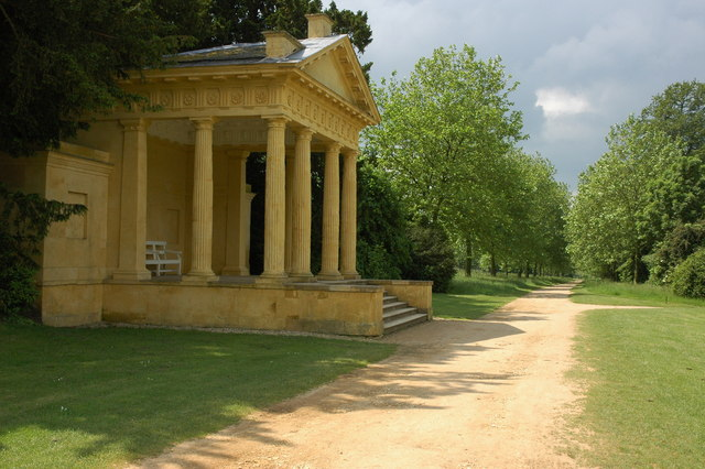 Western Lake Pavilion, Stowe